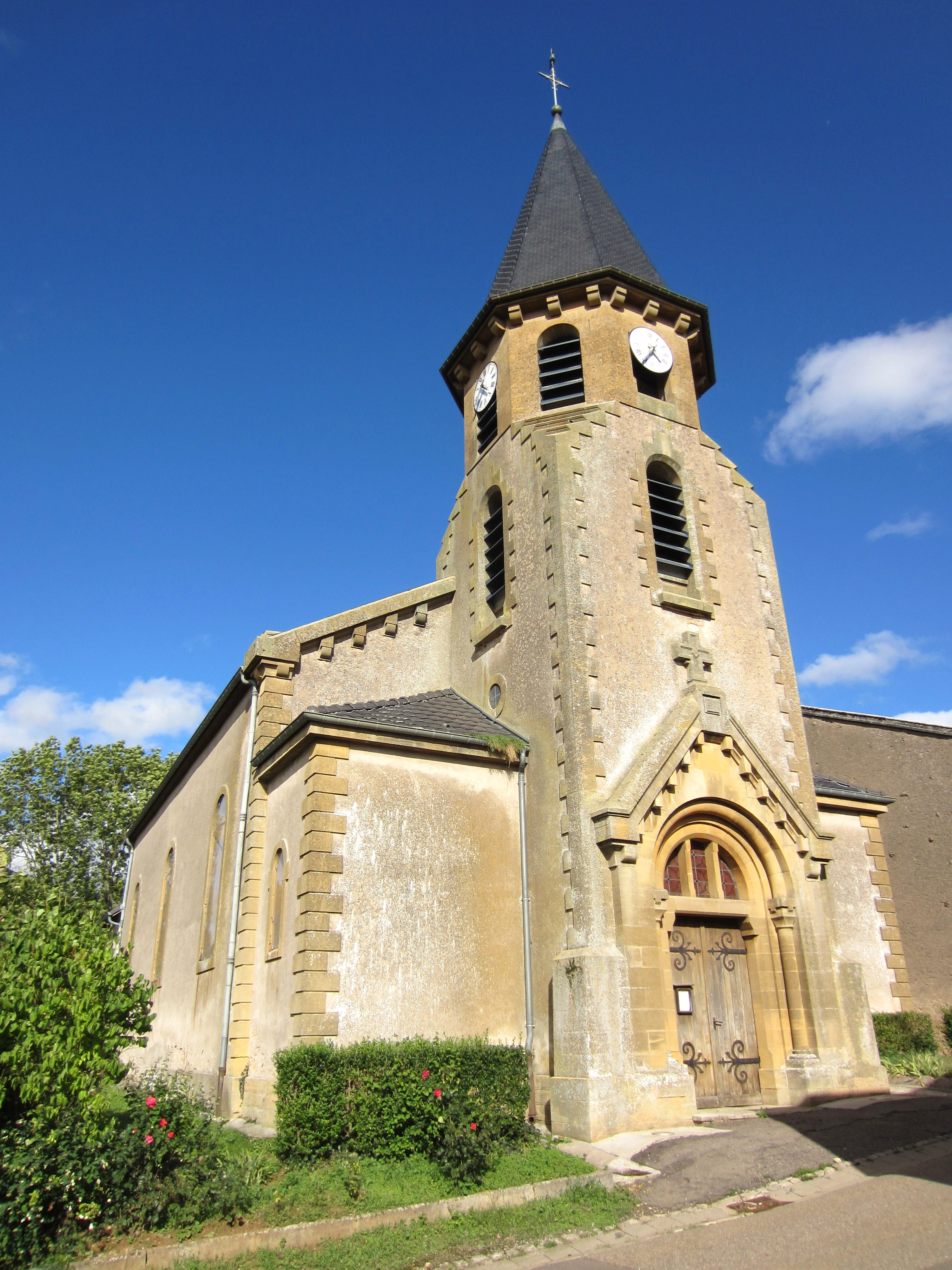 Description eglise St Julien Gorze Date13 September 2011Sourcemon appareil photoAuthorAimelaimePermission (Reusing this file) eglise St Julien Gorze